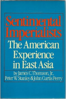 This is the book cover for "Sentimental Imperialists: The American Experience in East Asia", a book authored by James Thomson, Peter W. Stanley and John Curtis Perry